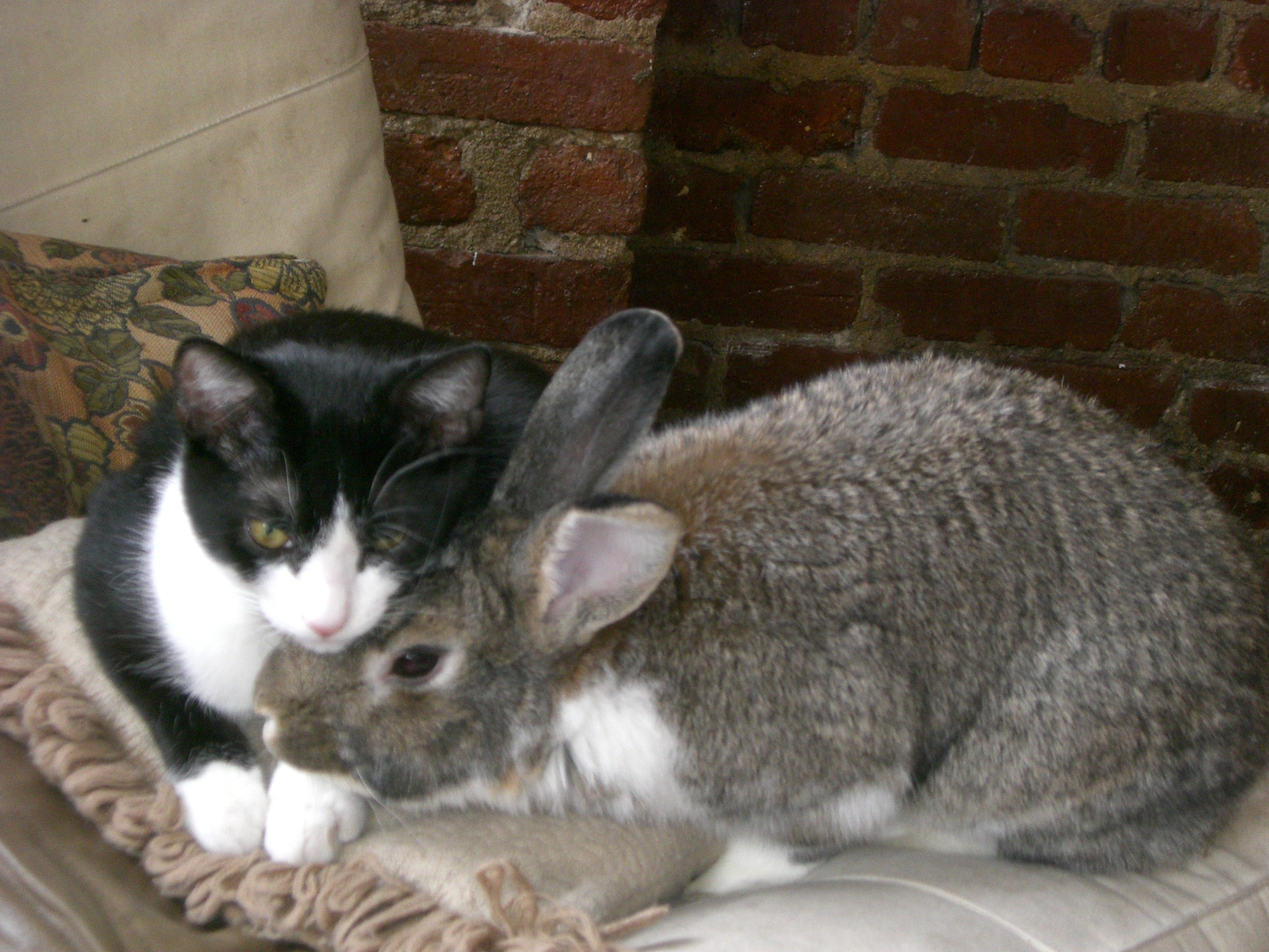 A cat and a rabbit cuddling